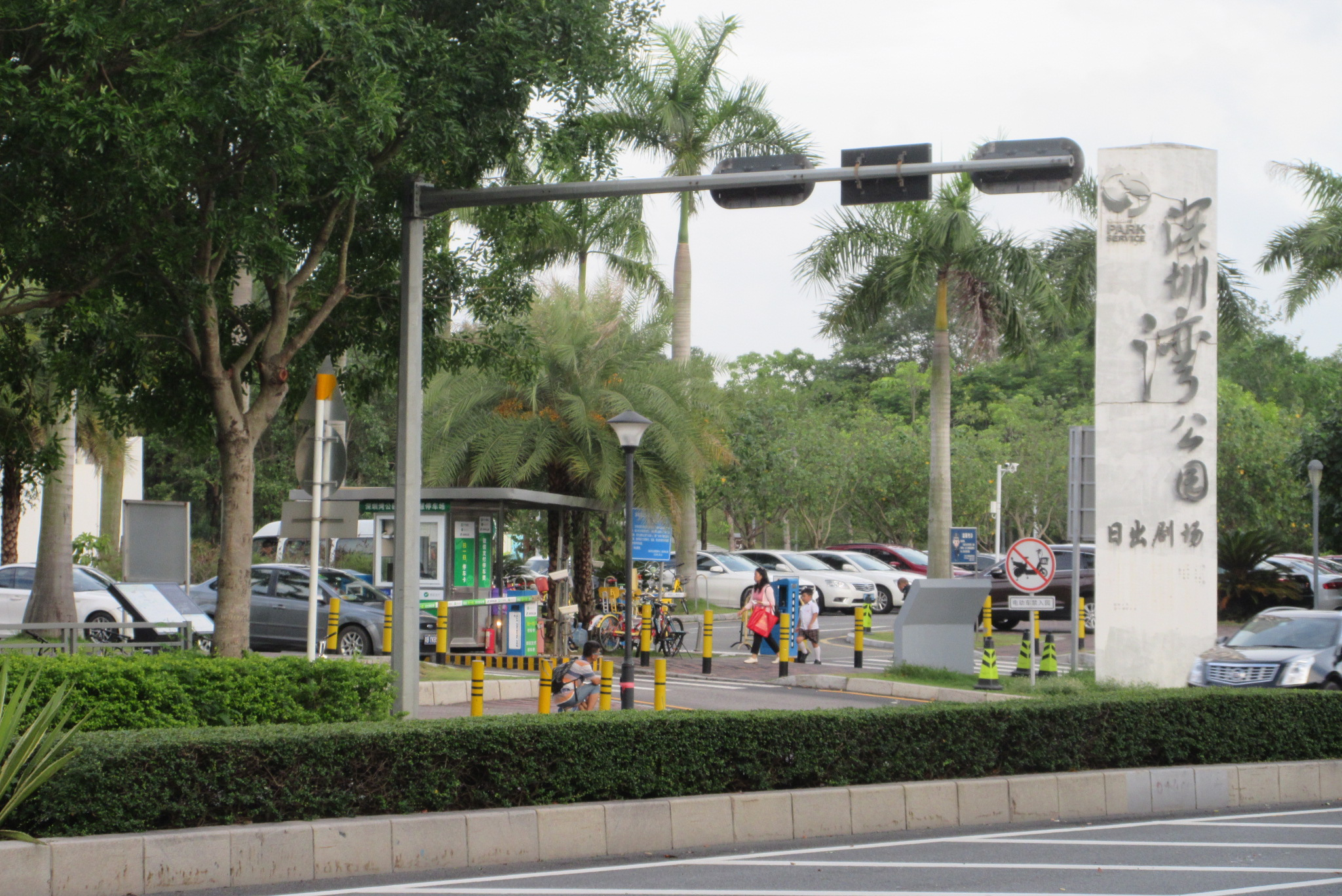 SZ zh-yue:深圳灣公園 Shenzhen Bay Park name sign zh-yue:望海路 Wanghai Road in June 2017